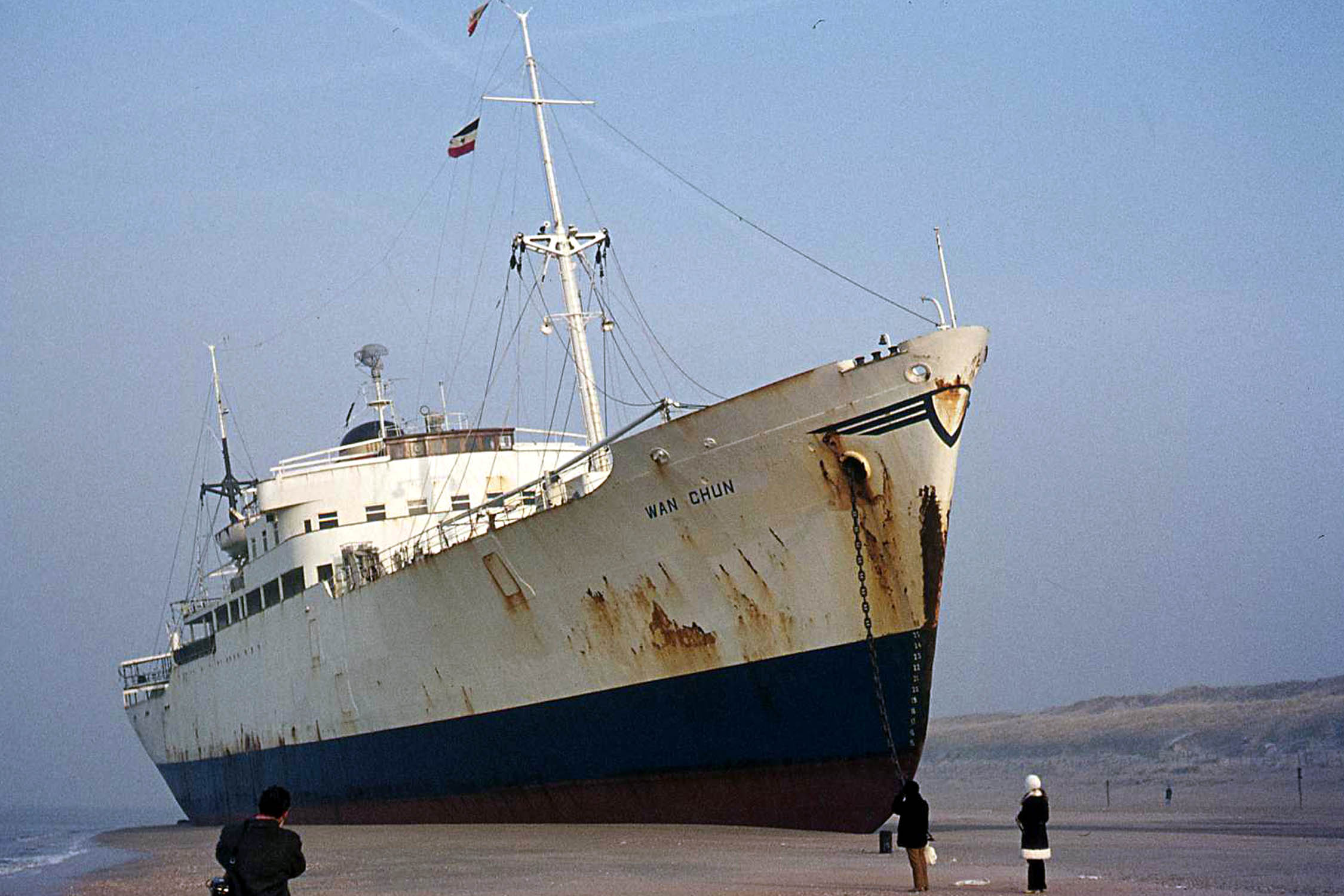 The cargo Wan Chun aground on Castricum's beach in November 1972.